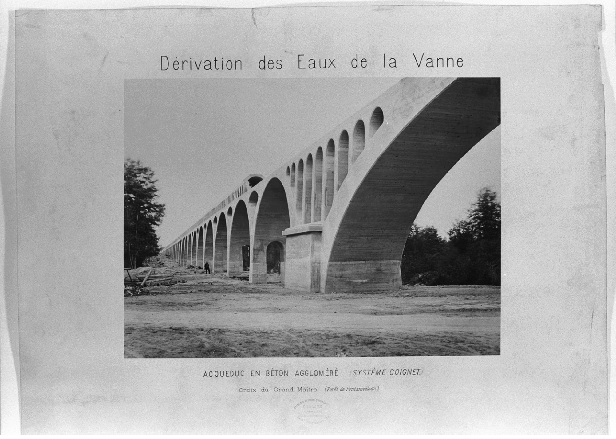 Collard, Auguste Hippolyte (1812-188.?): Acqueduc en beton aggloméré (Système Coignet). Croix du Grand Maître (Forêt de Fontainebleau). In: Dérivation des sources de la Vanne. Service municipal des travaux publics de Paris, 1869-1870.